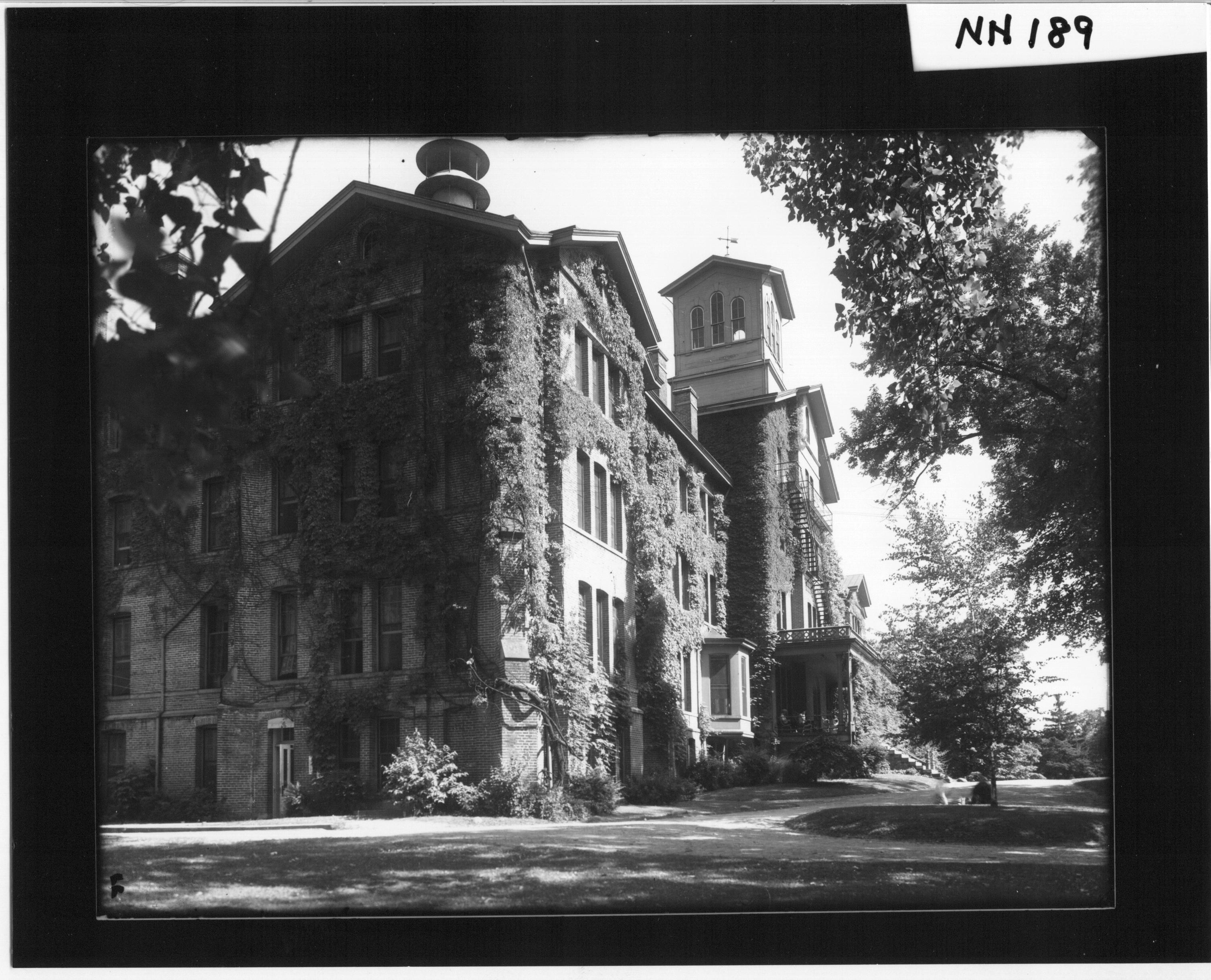 Persistent URL: Subject (TGM): Universities and colleges; Buildings; Location: Oxford, Ohio